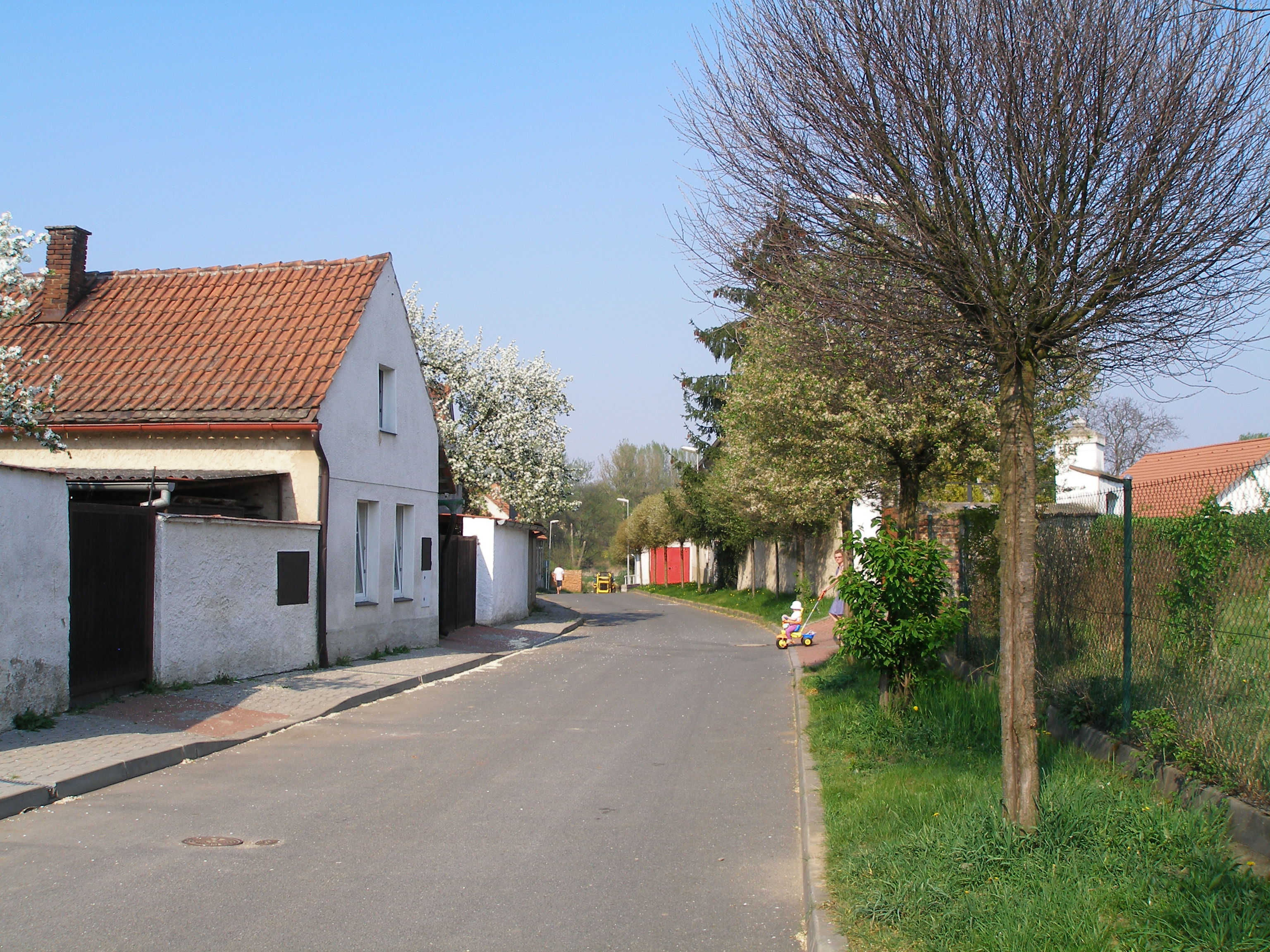 Street in Křivenice.